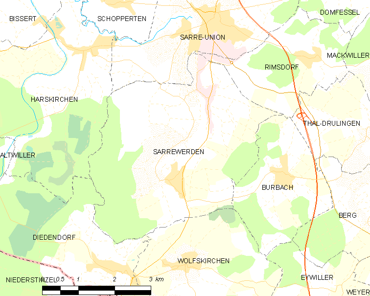 Map of French municipality